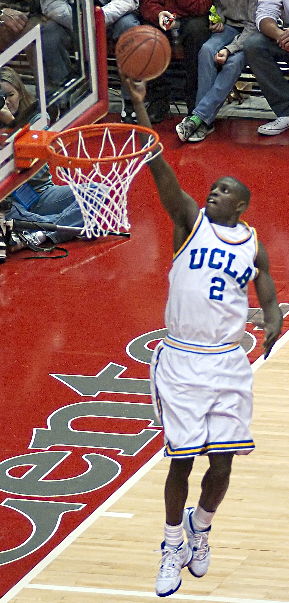 UCLA point guard Darren Collison driving for a layup during the matchup against DePaul on December 13, 2008.